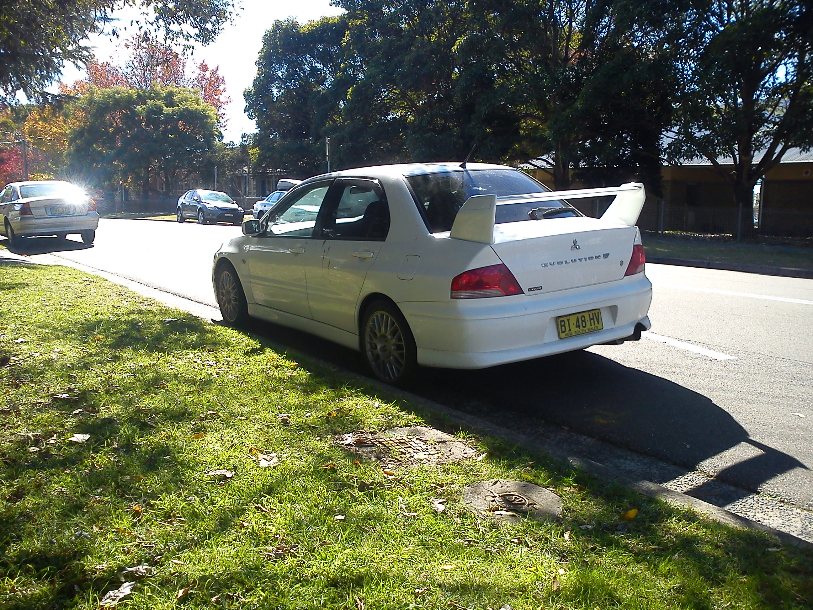 Mitsubishi Lancer Evolution VII.